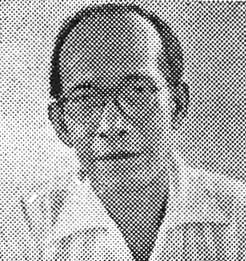 Indonesian writer Matu Mona